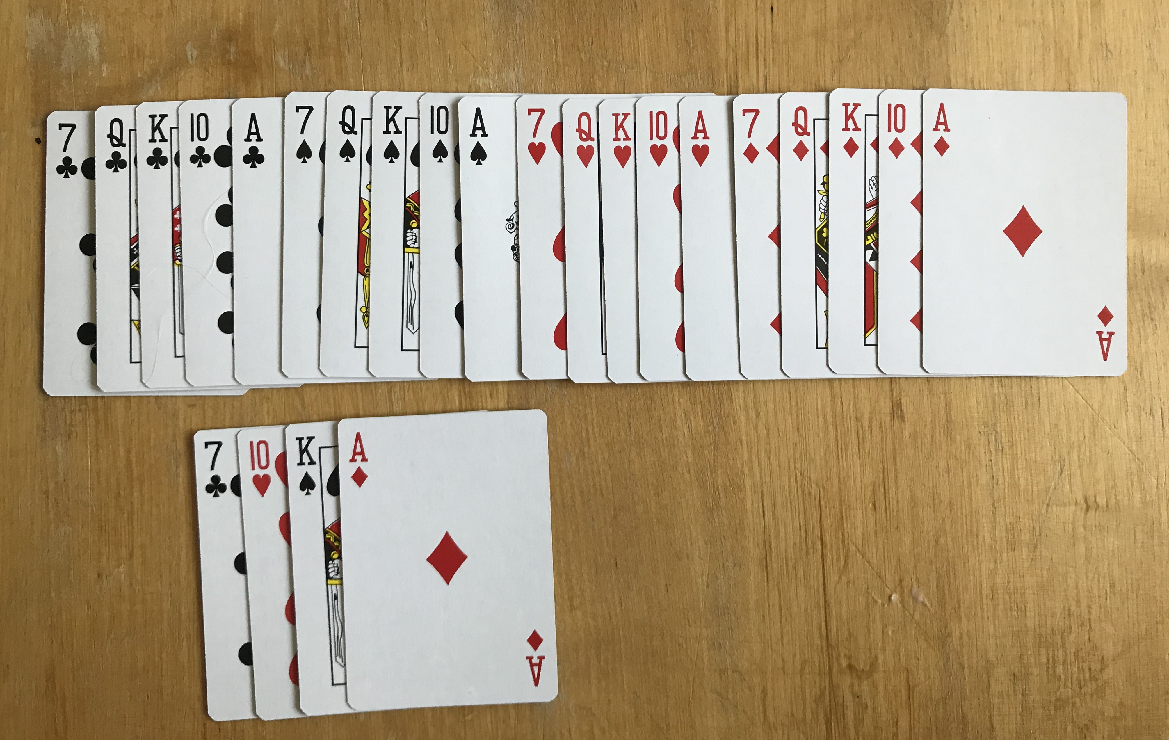 card deck from the card game Matt; upper row: single deck, bottom row: additional card for double deck